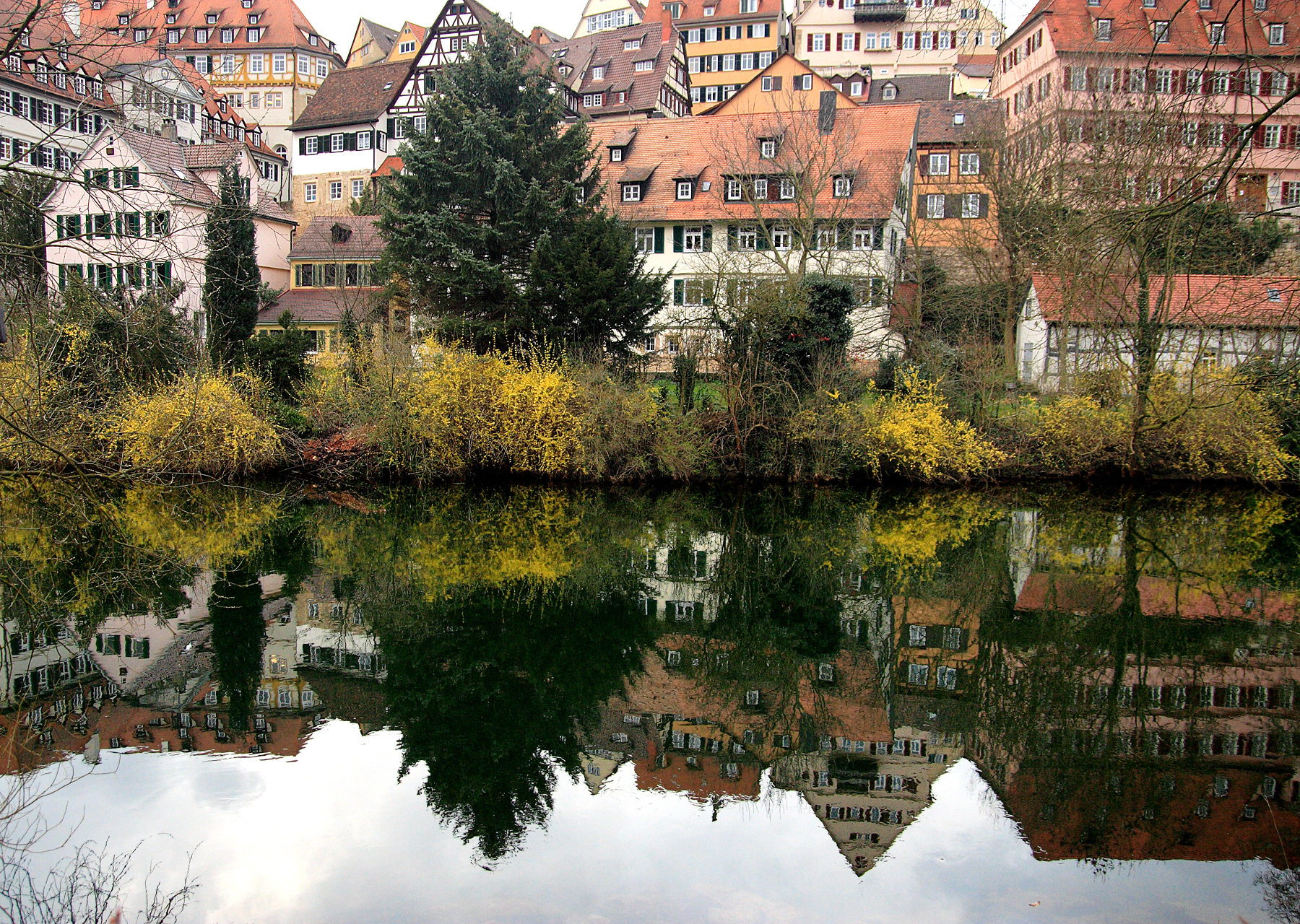 Tübingen, „academic" part of the Altstadt, seen from the Neckar with its famous Tübinger Stift (center of Philosphy, although always the Protestant faculty). On the right the oldest building, dedicated to the „profane sciences" („Artisten", then clinics, now philosophy and art history).